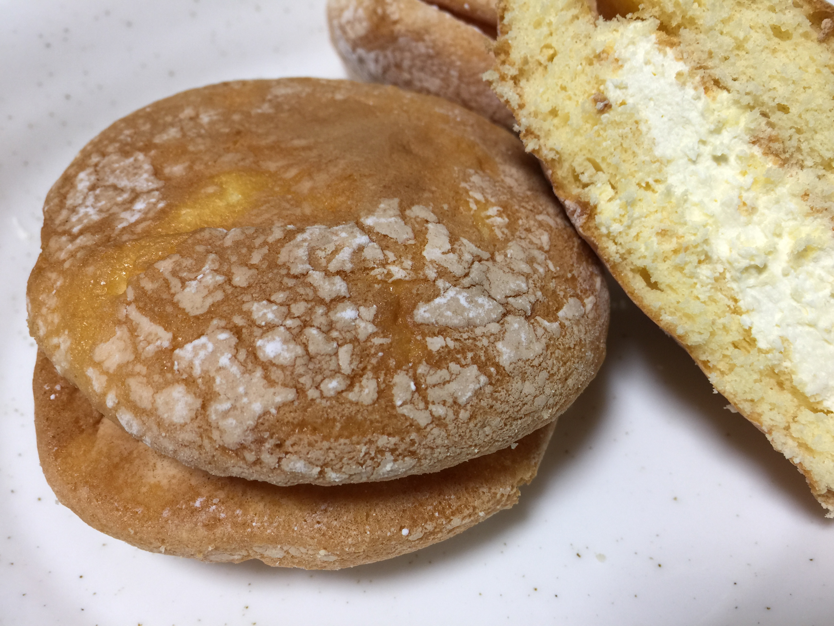 Bouchée in Japan